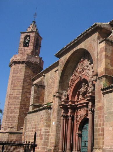 Iglesia de la Encarnación